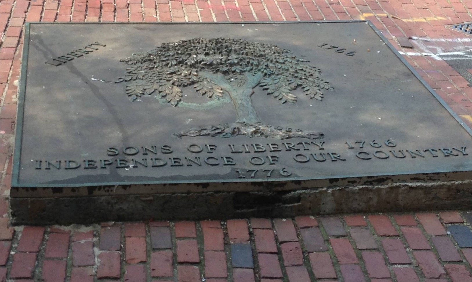 Marker on the walkway of Liberty Tree Plaza near the intersection of Boylston, Essex, and Washington Streets commemorating the historic Liberty Tree in Boston, Massachusetts, United States